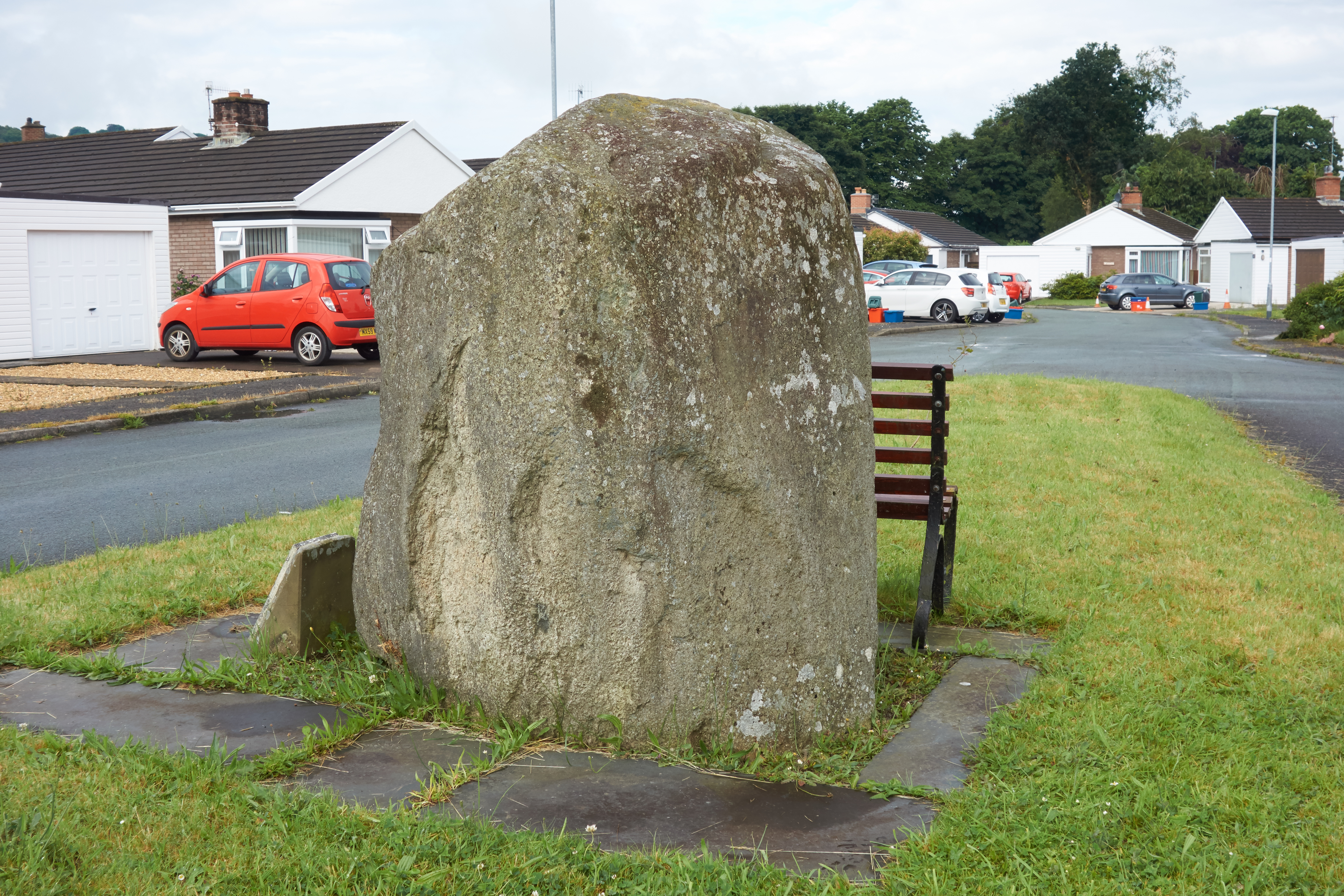 Maen Llwyd, a standing stone in Machynlleth